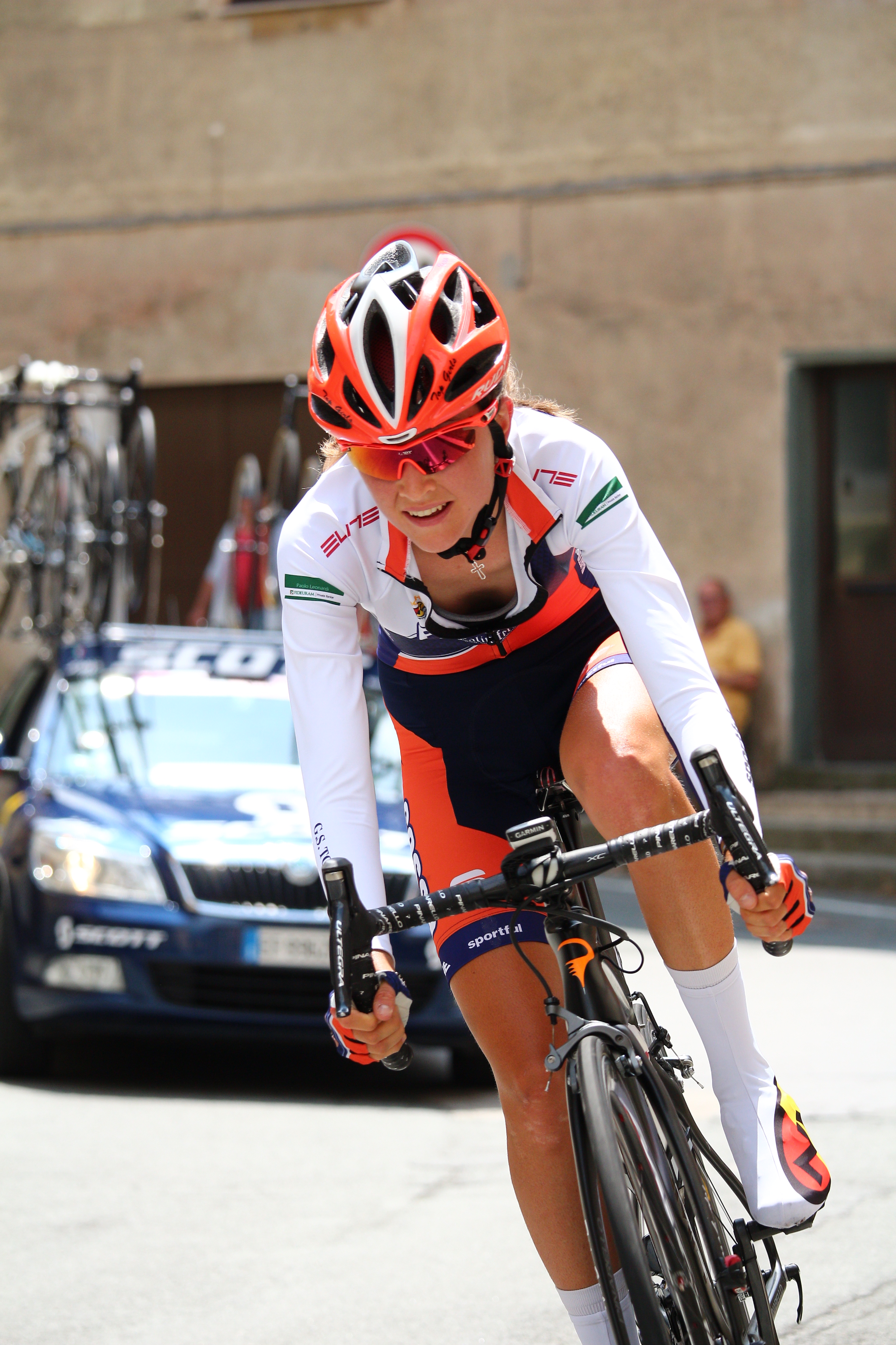 Asja Paladin during the 7th stage of Giro Rosa 2016 in Stella San Martino